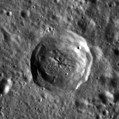 Nikolaev lunar crater - LROC image.